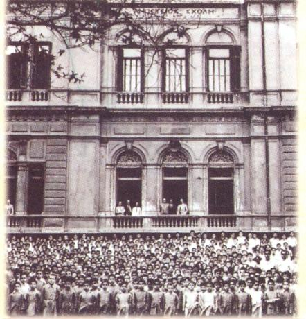 Greek school in Egypt, Ampetios school, Cairo, 19th century